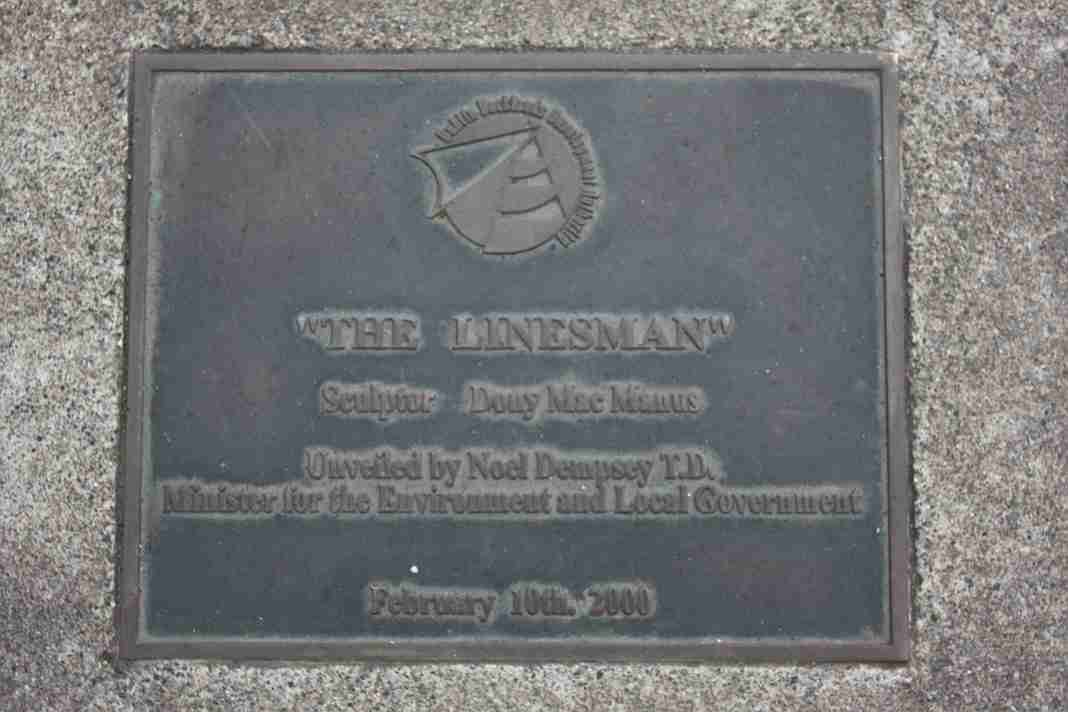 Plaque by the Linesman statue by Dony MacManus (2000) in Dublin naming the sculptor.